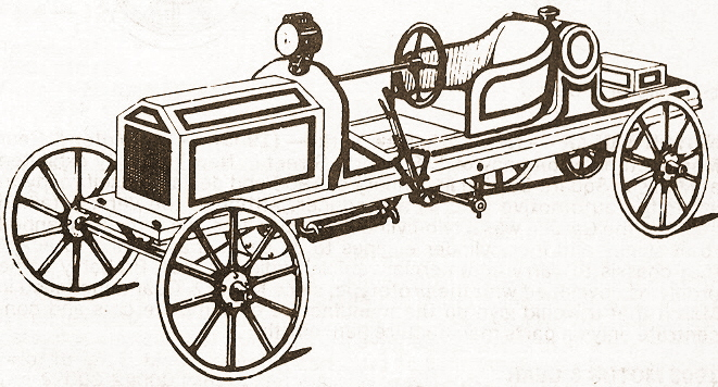 1911 Motor Bob Runabout